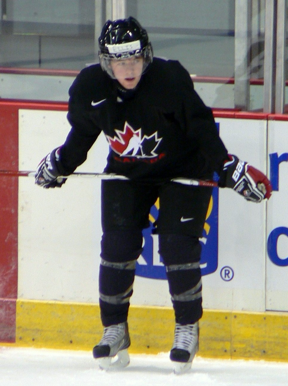 Canadian ice hockey defenceman Ryan Ellis during the national junior team's selection camp for the 2010 World Junior Championships. Camera: Panasonic DMC-FZ4 License on Flickr (2010-12-29): CC-BY-SA-2.0 Flickr tags: team canada, world junior, ryan ellis